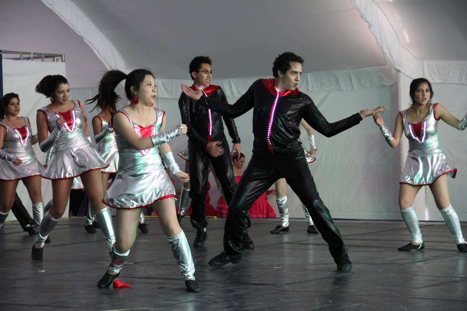 Student performers of Jazz at "Week of the culture" in ITESM CCM.